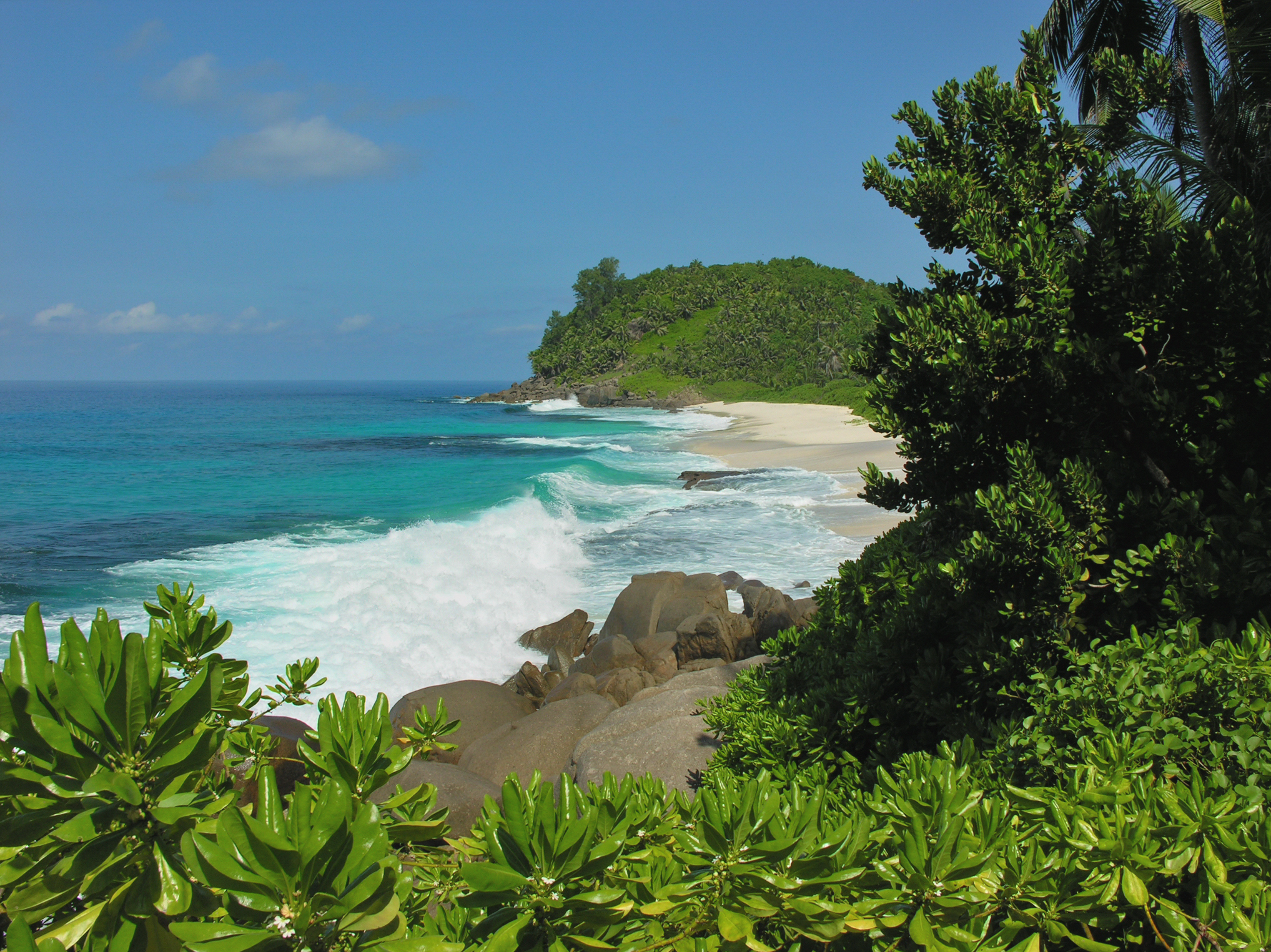 Petit Police on Mahé island